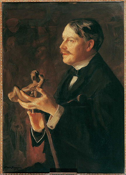 Herbert Percy Horne, portrait created 1908 by british painter Henry Harrs Brown